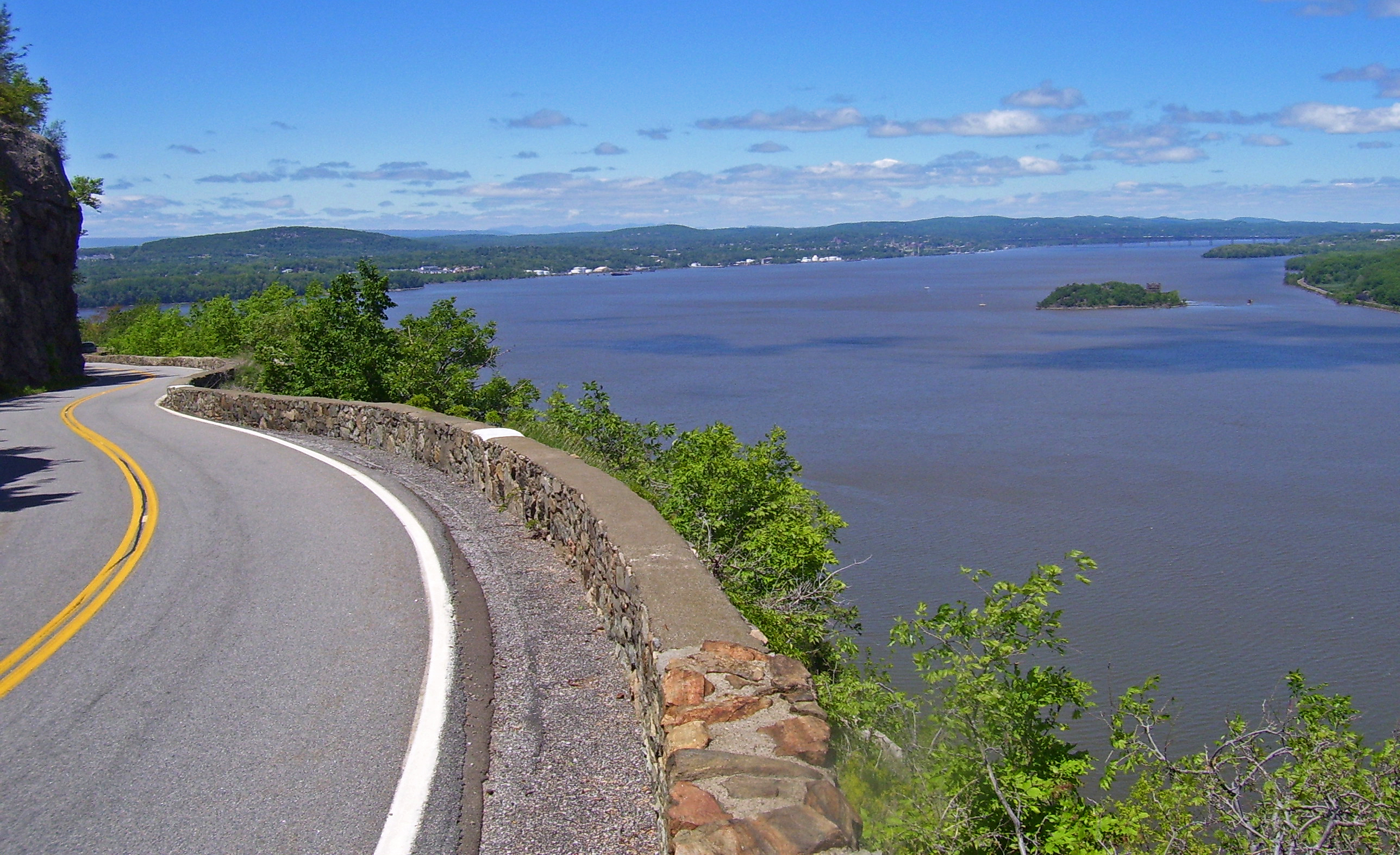 The Storm King Highway section of NY 218, overlooking Newburgh Bay and the Hudson River from Storm King Mountain, Cornwall, NY, USA